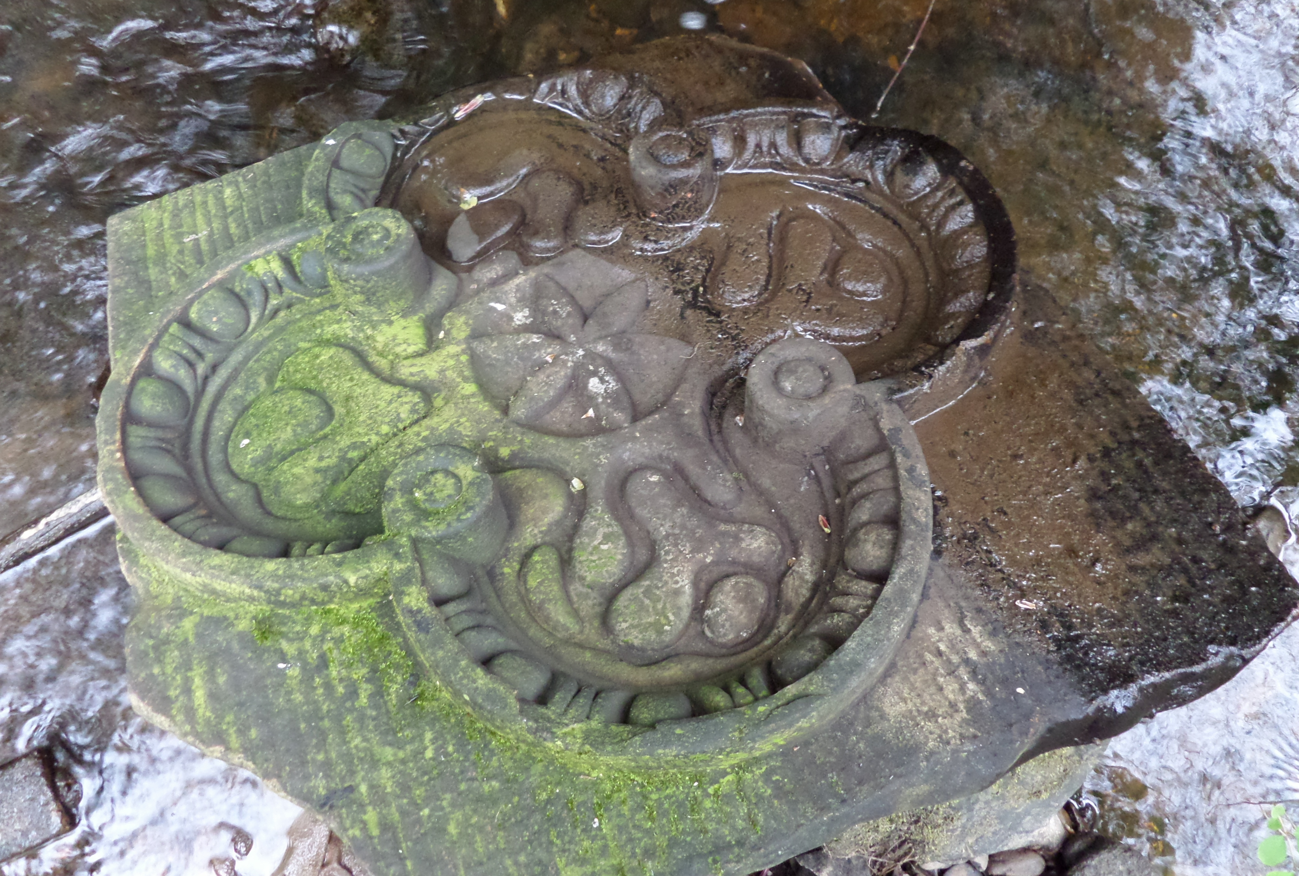 Ornate stone carving from Kerelaw bridge, Kerelaw Glen, Stevenston, North Ayrshire, Scotland.